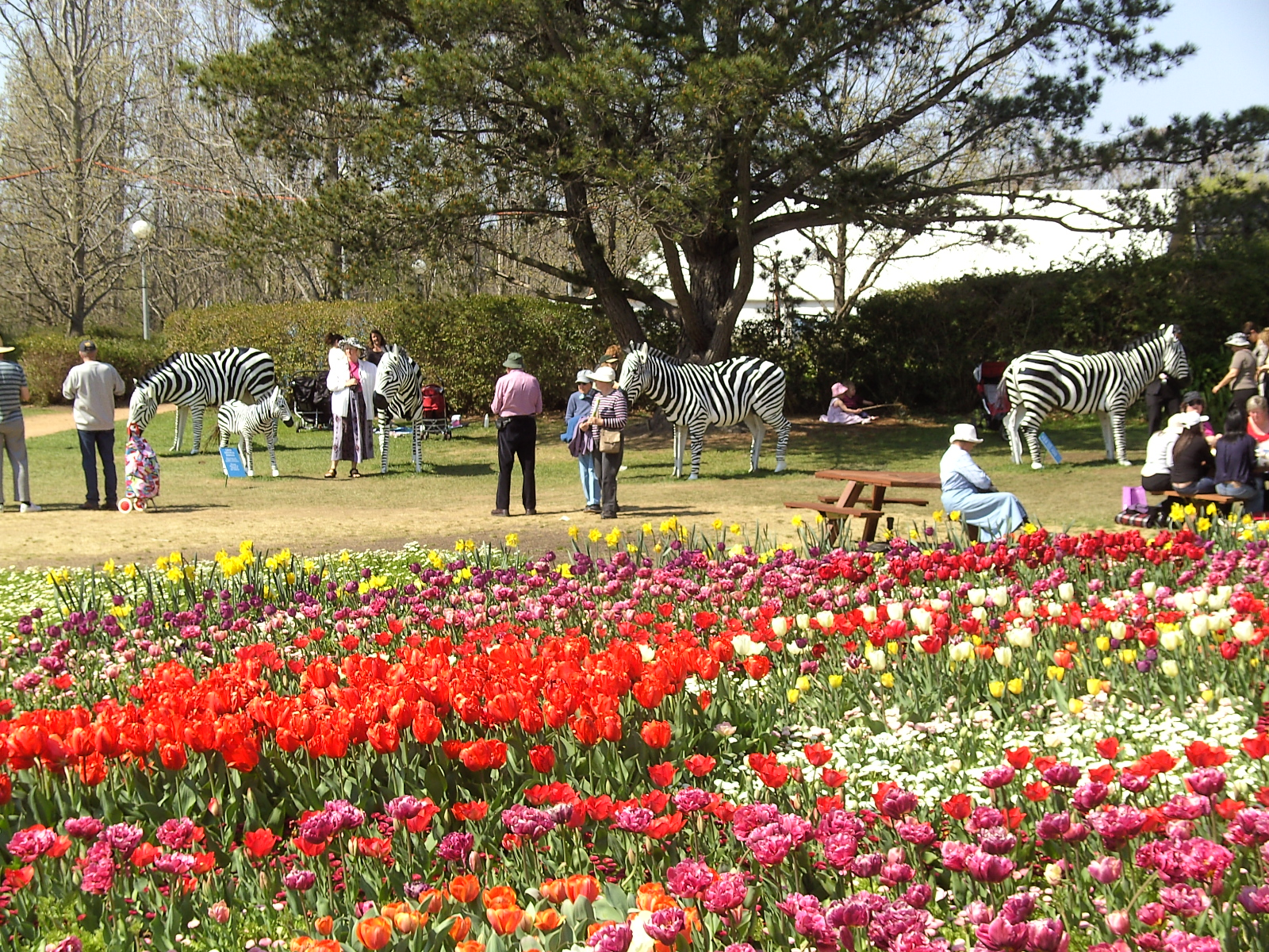 The herd of zebras (sculptures) at Floriade in Canberra, September 2010, after their removal from Lake George. Goodbye Stopper, Reviver and Survivor, Natasha Rudra, Canberra Times, 16 July 2010, accessed 4 October 2010